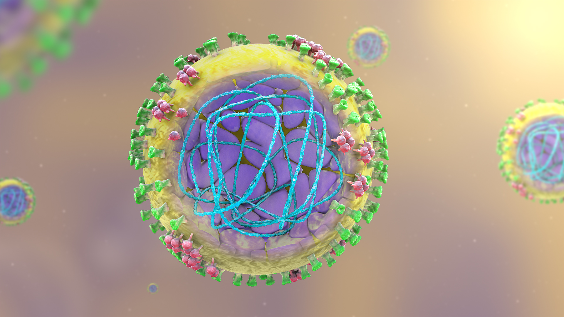 H1N1 enveloped virus with outer lipid membrane having glycoprotein "spikes"